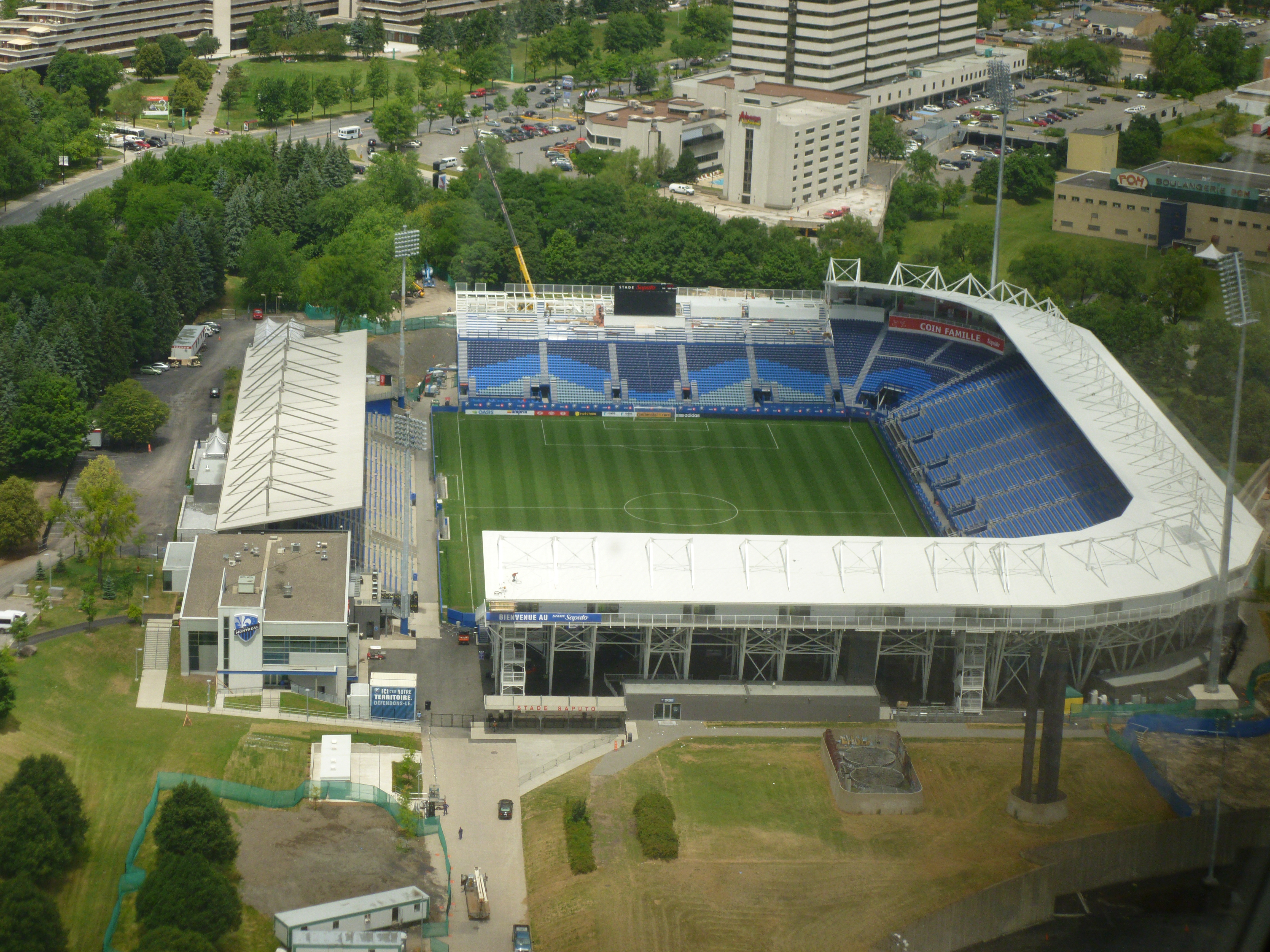 Saputo Stadium, Montréal Québec Canada